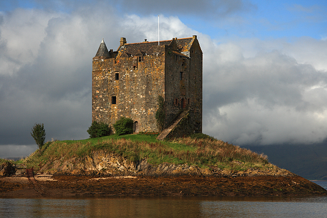 Castle Stalker (3)